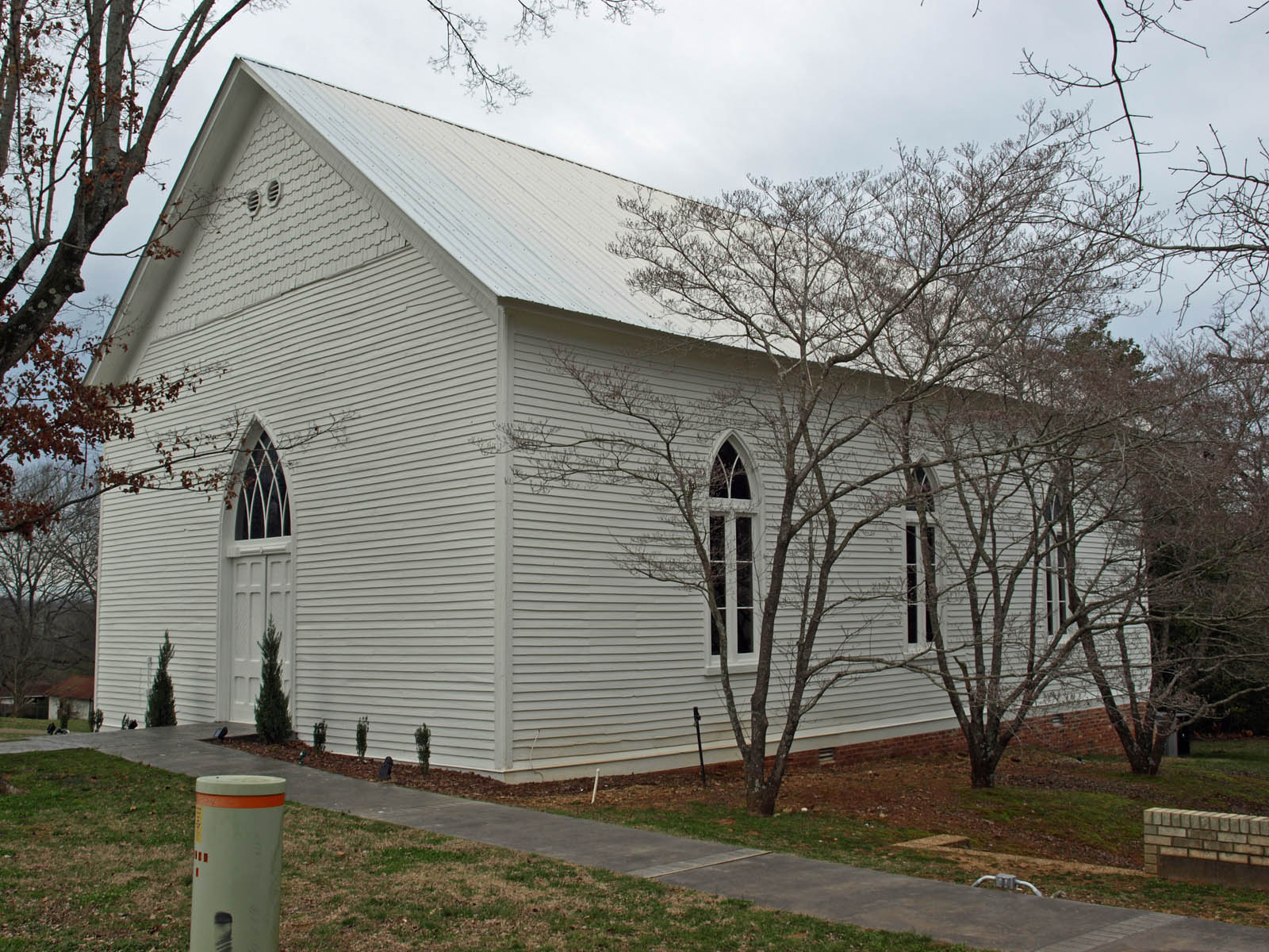 New Market Presbyterian Church in New Market, Alabama, listed on the National Register of Historic Places